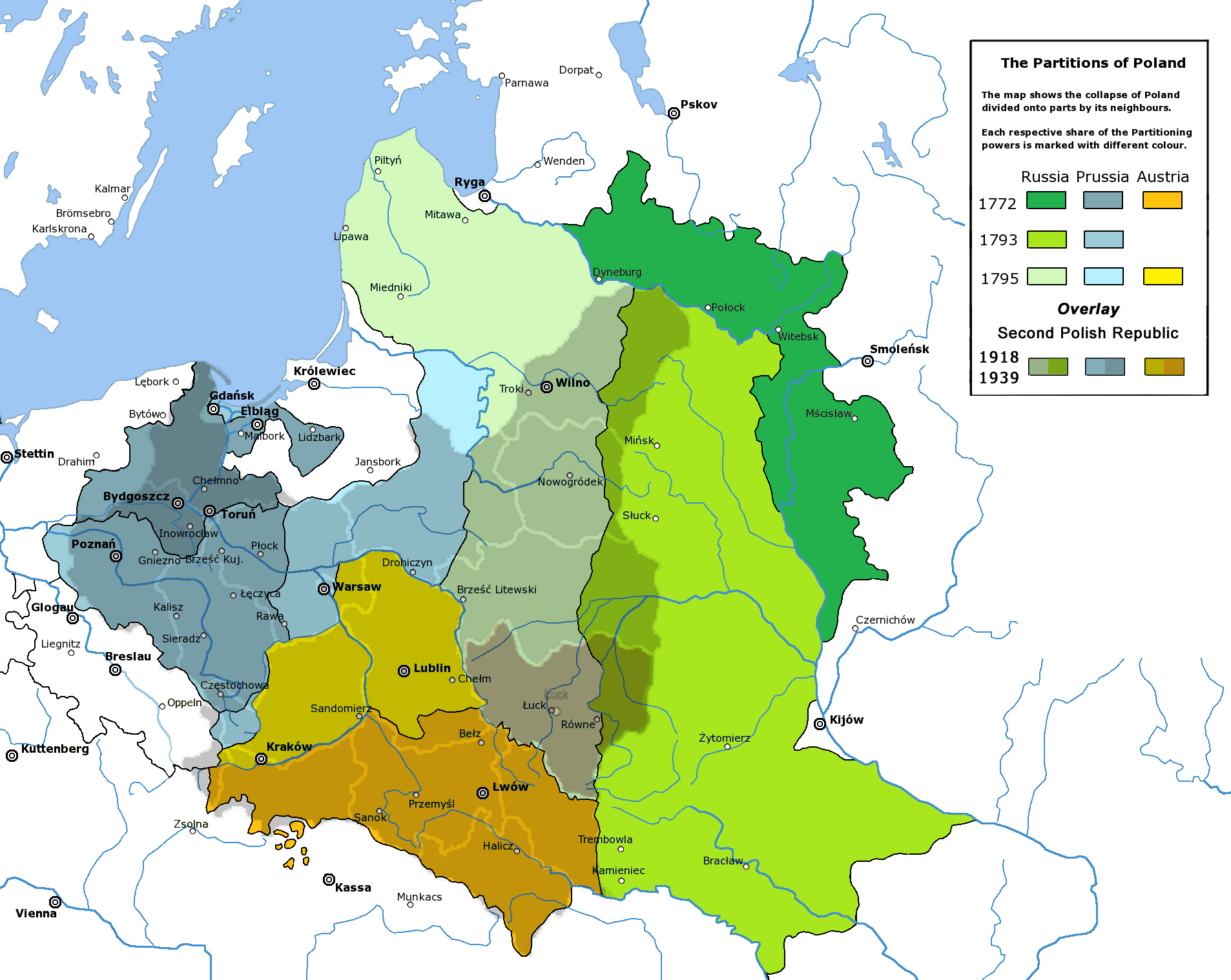 Partitions of the Polish-Lithuanian Commonwealth in 1772, 1793 and 1795, overlaid with the borders of the Second Polish Republic, 1918-1939, with the Volhynian Voivodeship (1921–1939) highlighted in pastel burgundy.